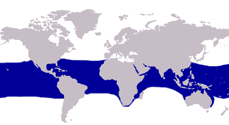 Approximate map of the distribution of the African pompano, Alectis ciliaris. Note it mostly occurs around the coasts, juveniles pelagic.